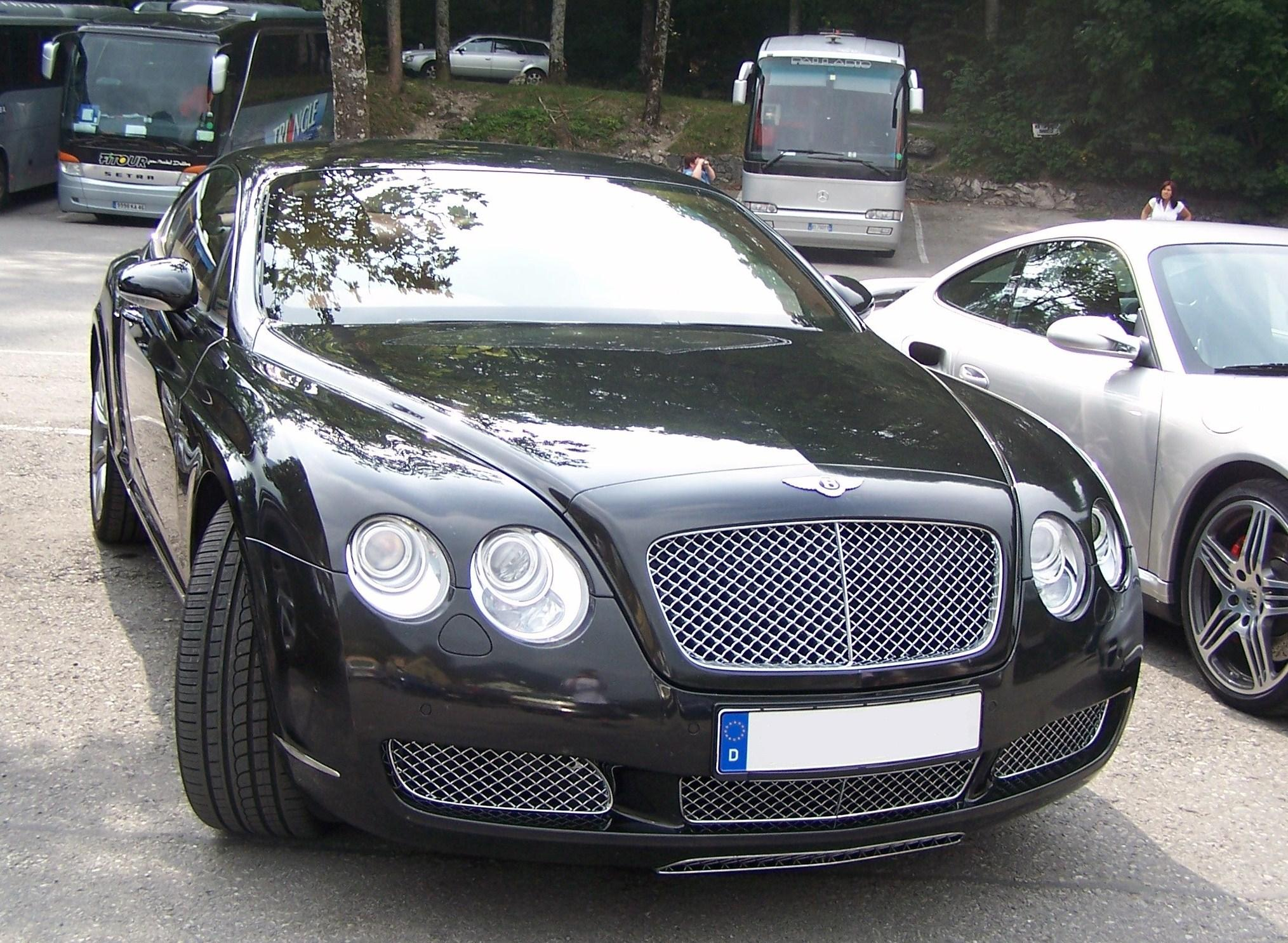 Bentley Continental